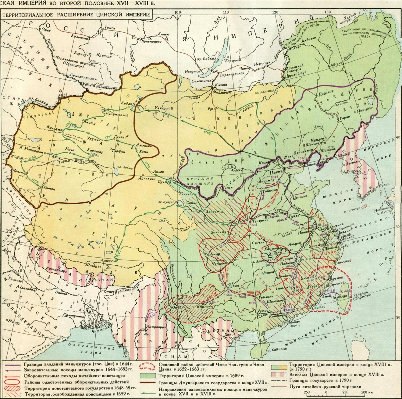 Map of Qing Dynasty China in 1820 by USSR.